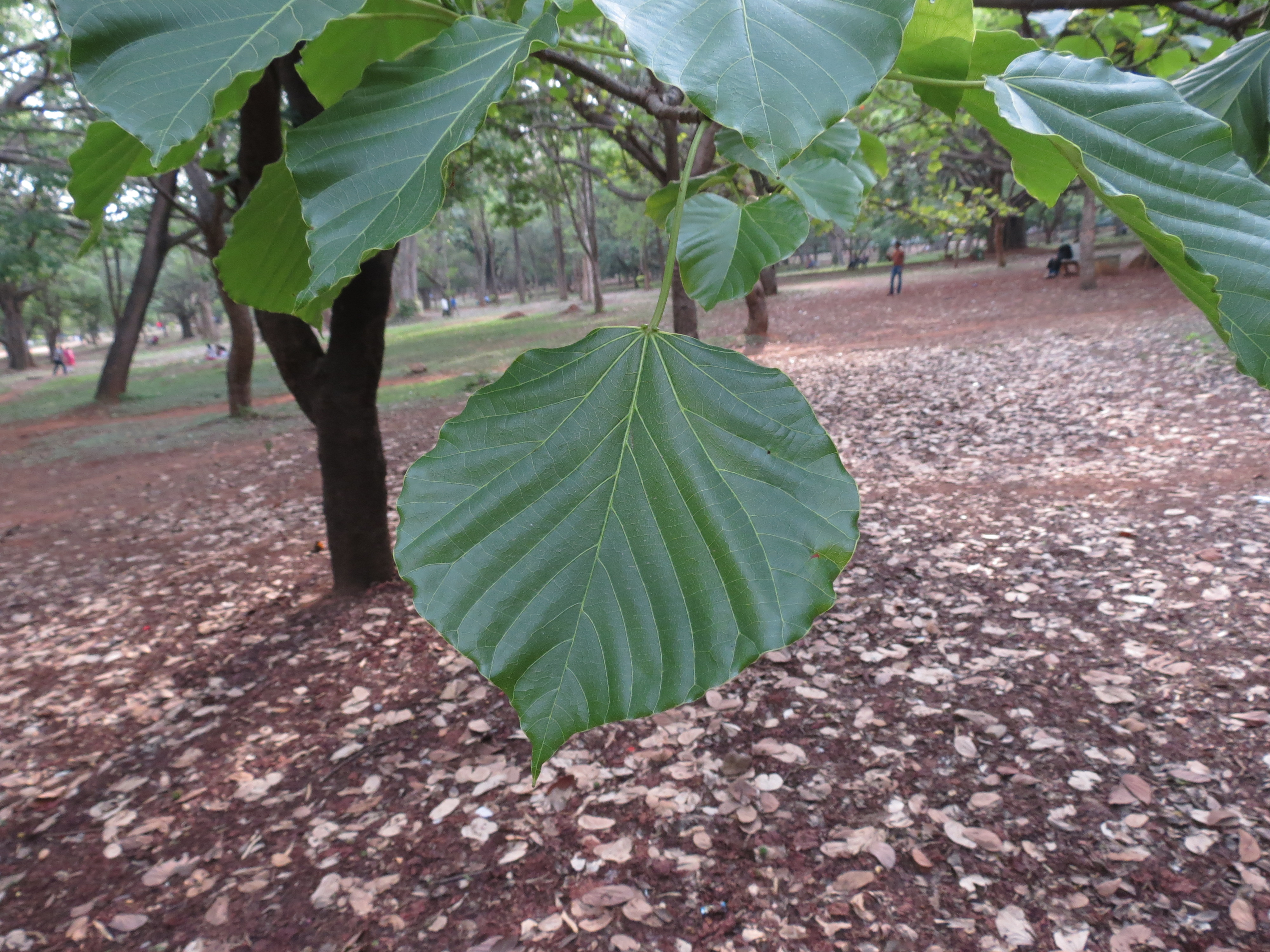 Reutealis trisperma also known as Philippine tung tree seen in Cubbon park Bangalore.